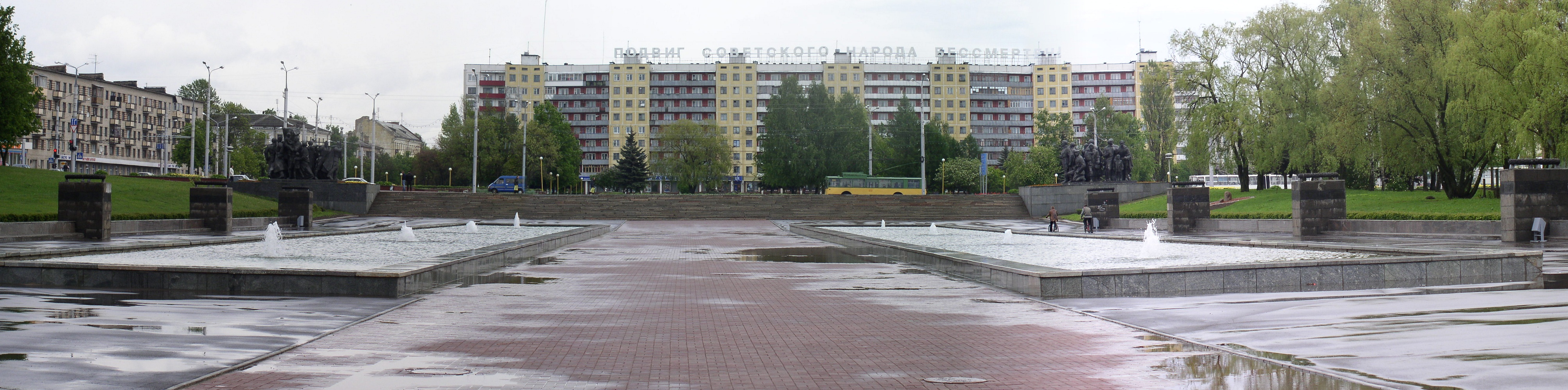 Victory square. Vitsebsk, Belarus.